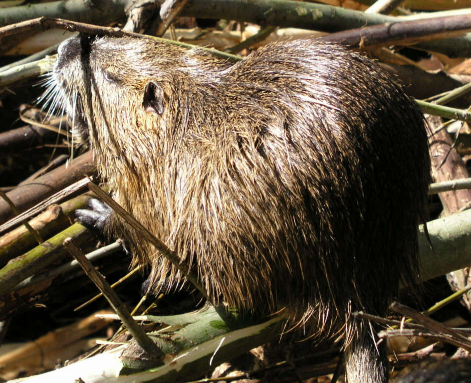 Myocastor coypus in Amersfoort Zoo 13/5/2005 Photo E van Herk history: nl.wikipedia 13 mei 2005 20:37 . . Evanherk . . 944x768 (161172 bytes) (Myocastor coypus in Amersfoort Zoo 13/5/2005 Photo E van Herk {eigenwerk})